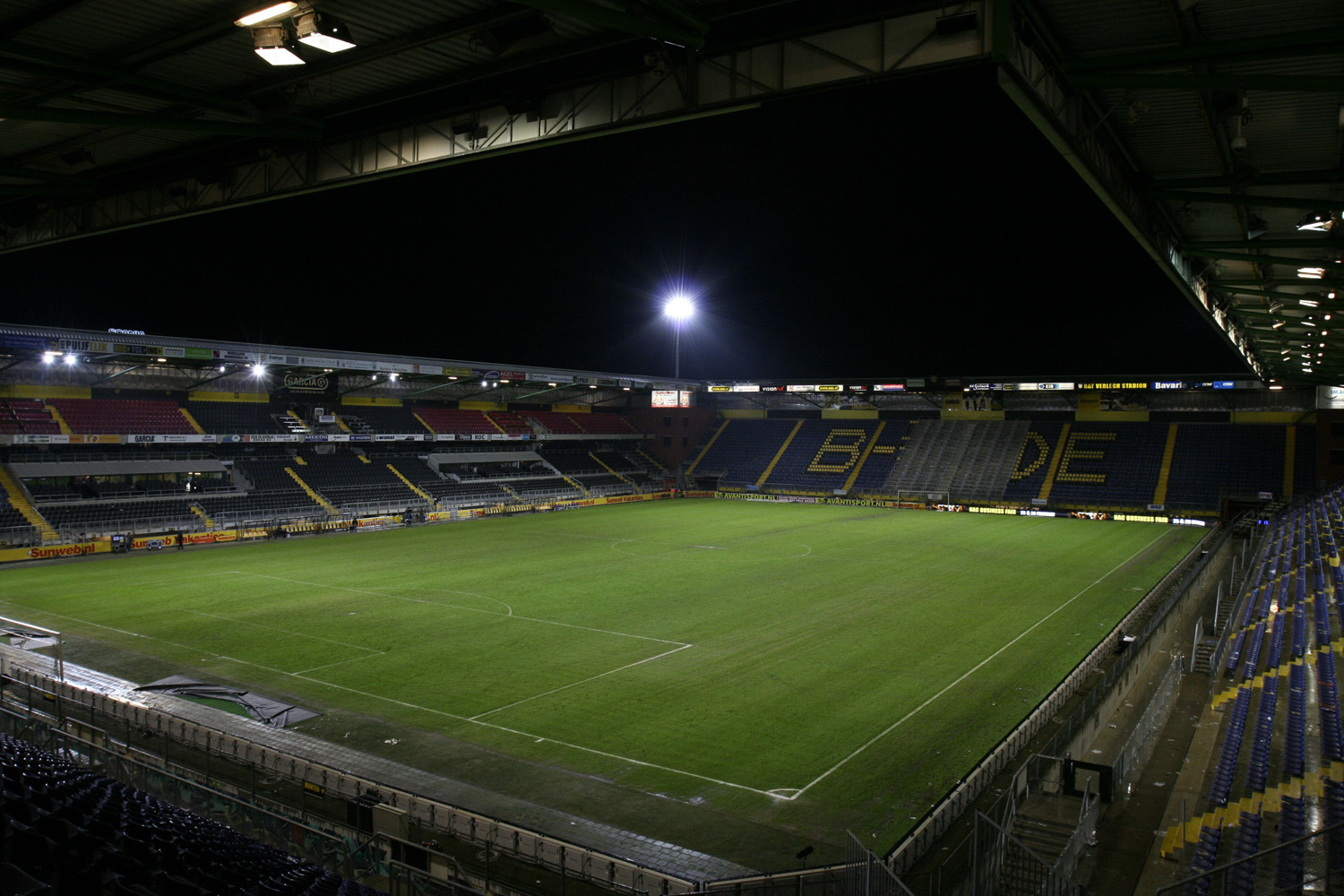 The Rat Verleghstadium in Breda during the 2009-2010 season match NAC Breda - VVV Venlo